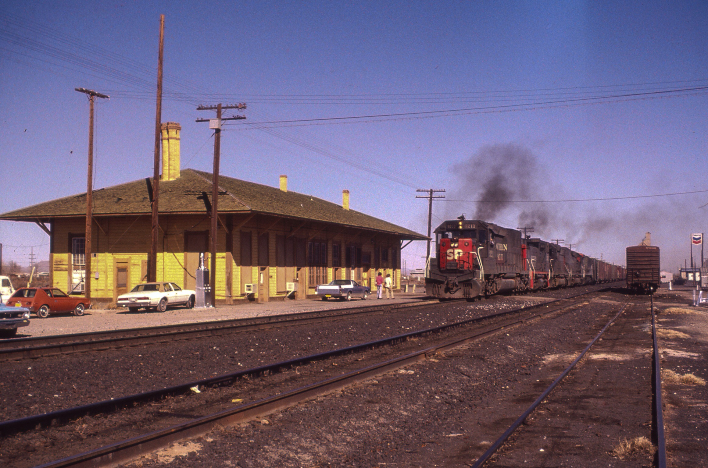 An SP westbound passing the old Deming NM depot.